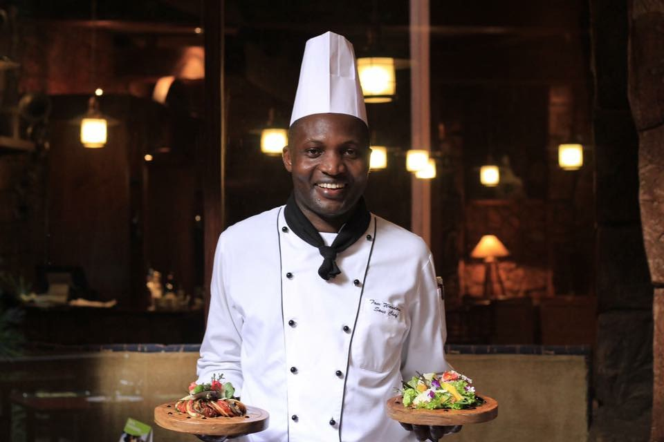 Kampala Serena Hotel’s Chef at work! This is an image of "African people at work" from Uganda